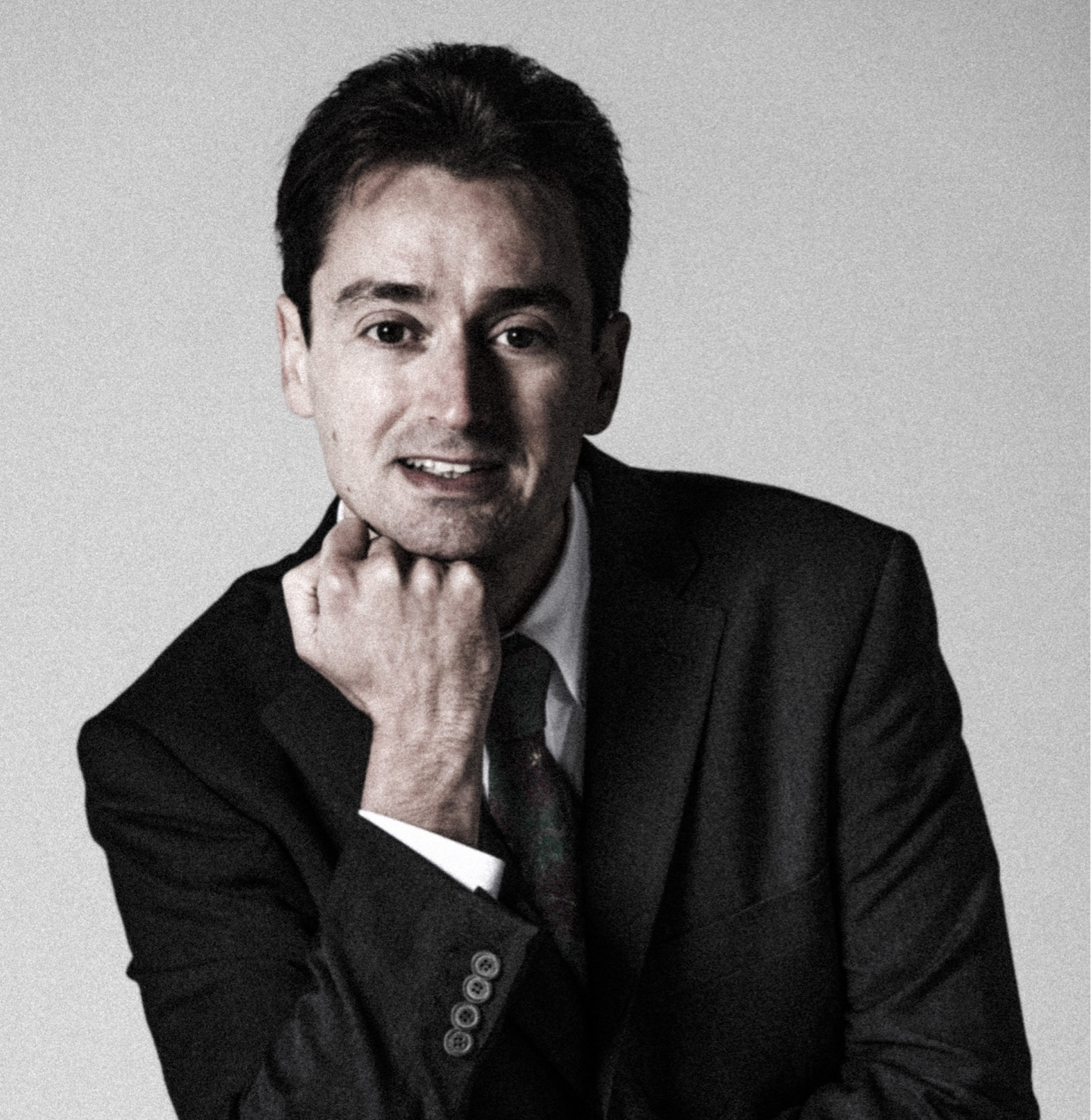 Photo of the art critic and curator Alain Chivilò, Venice 2016